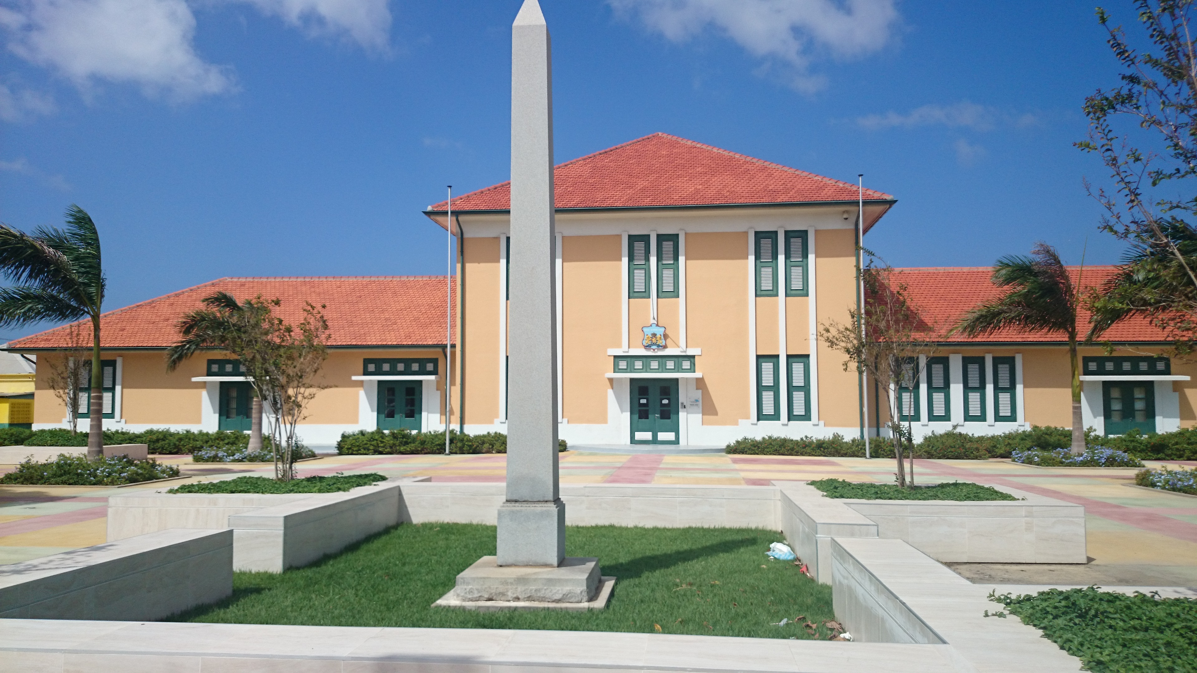 Another view of front of courthouse